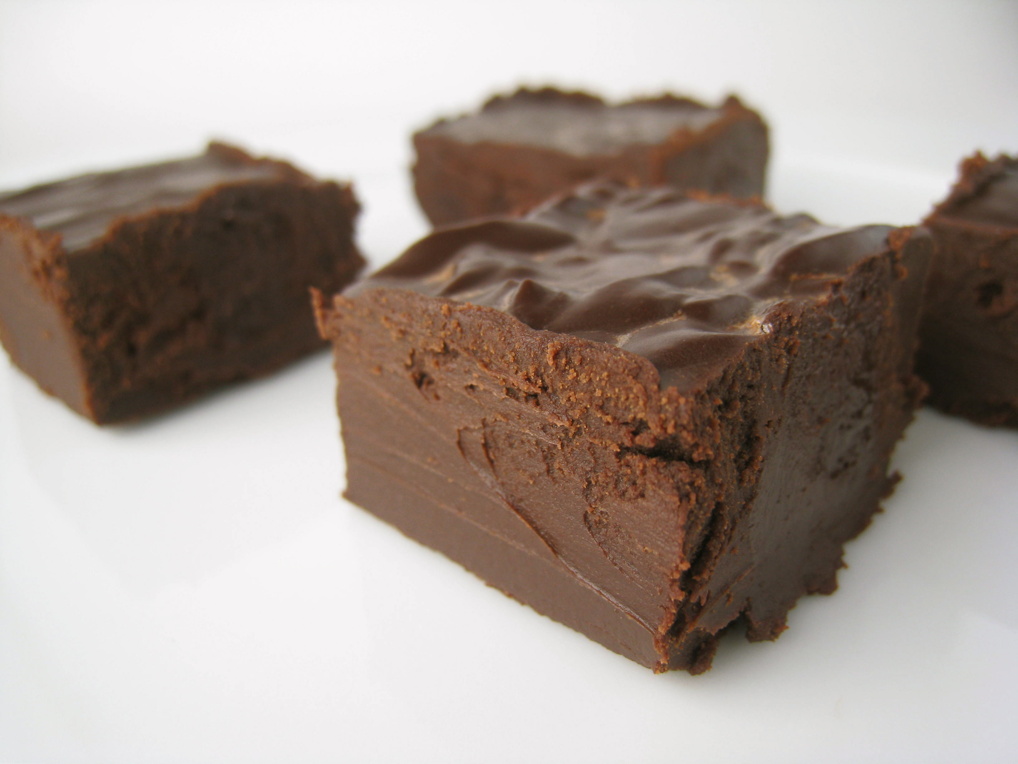 Vegan Chocolate Fudge.